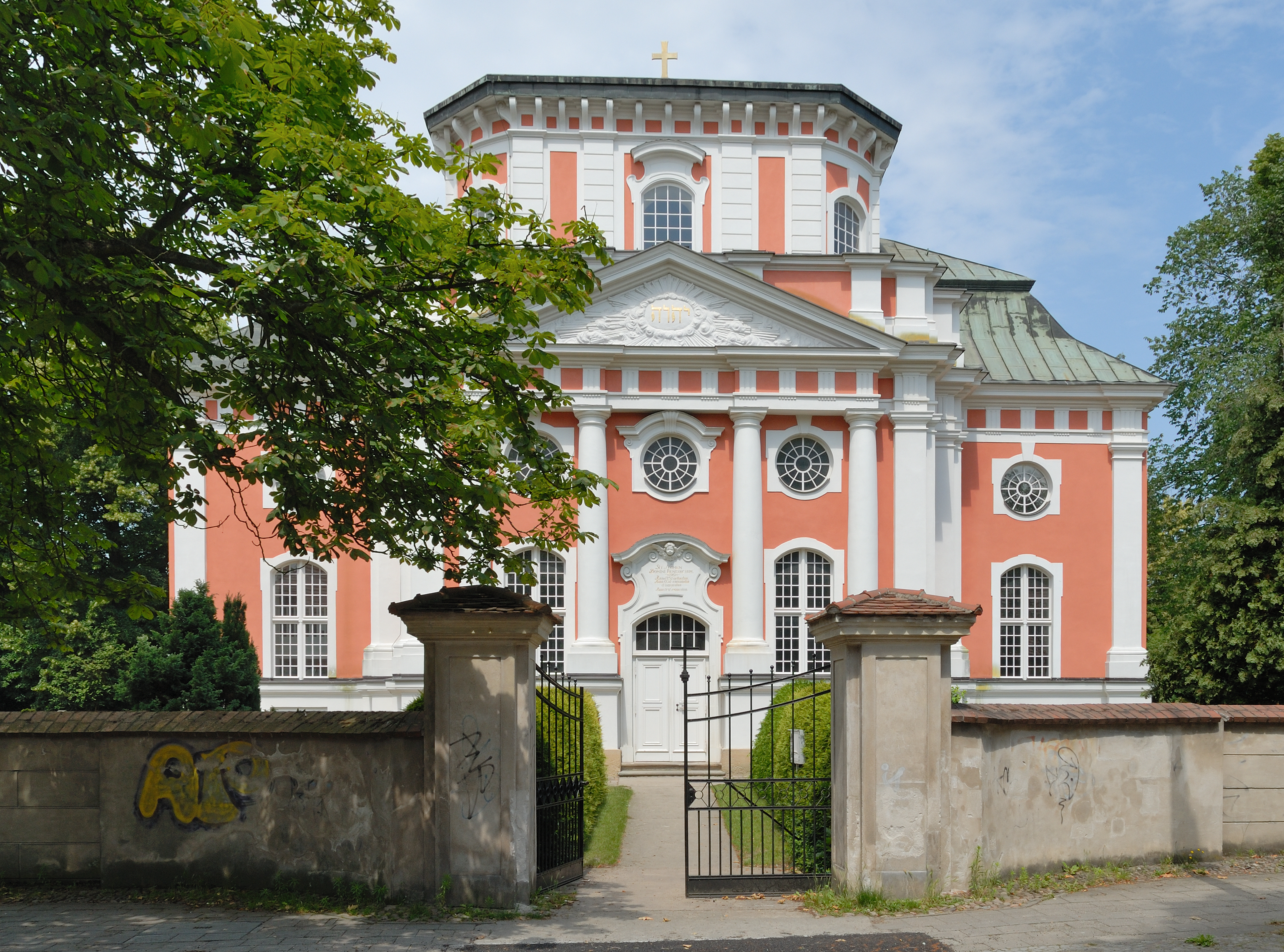 Schlosskirche Buch, a protestant church in Berlin-Buch.